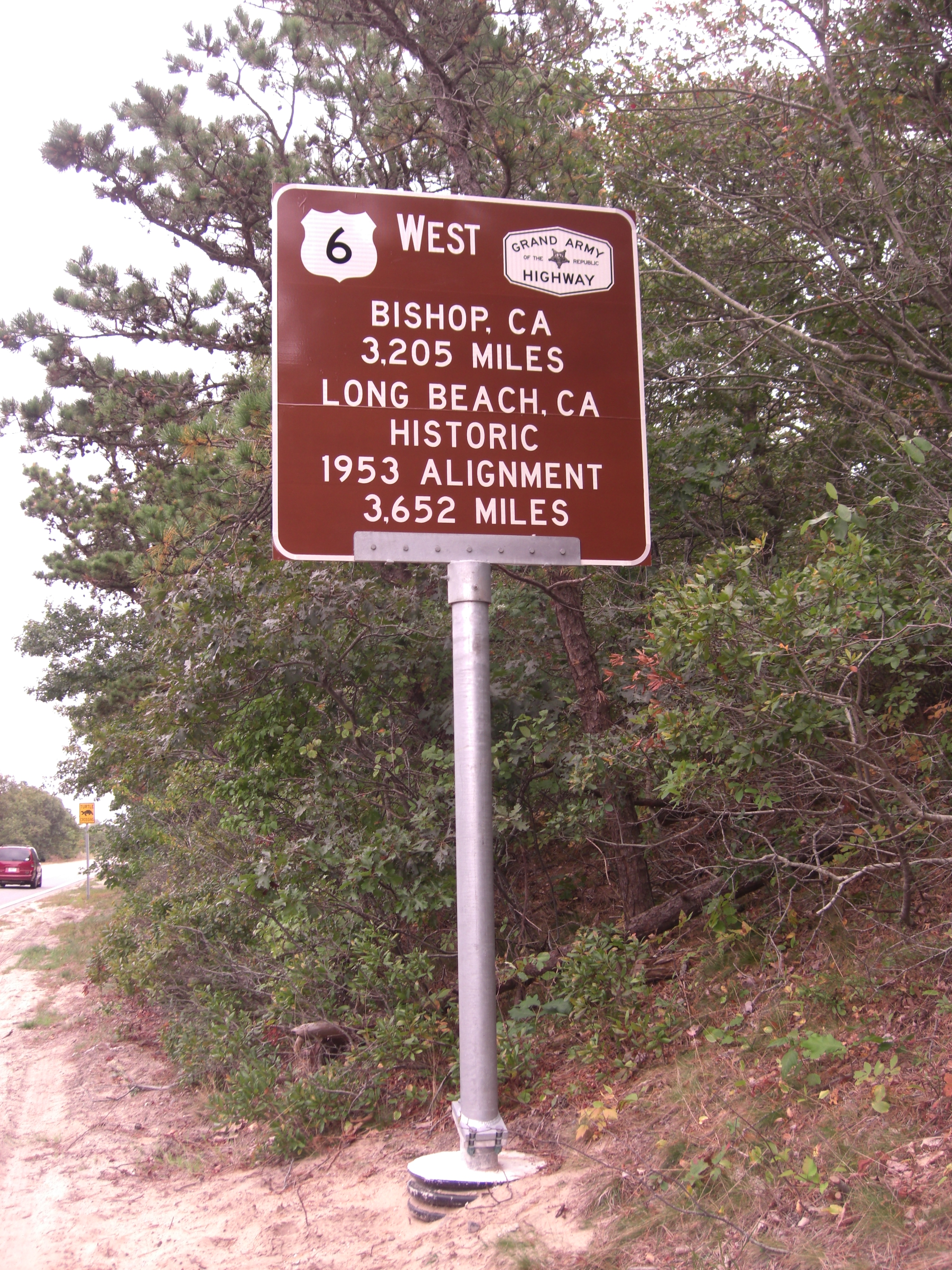 Sign at the beginning of westbound US-6 at Provincetown, Mass.